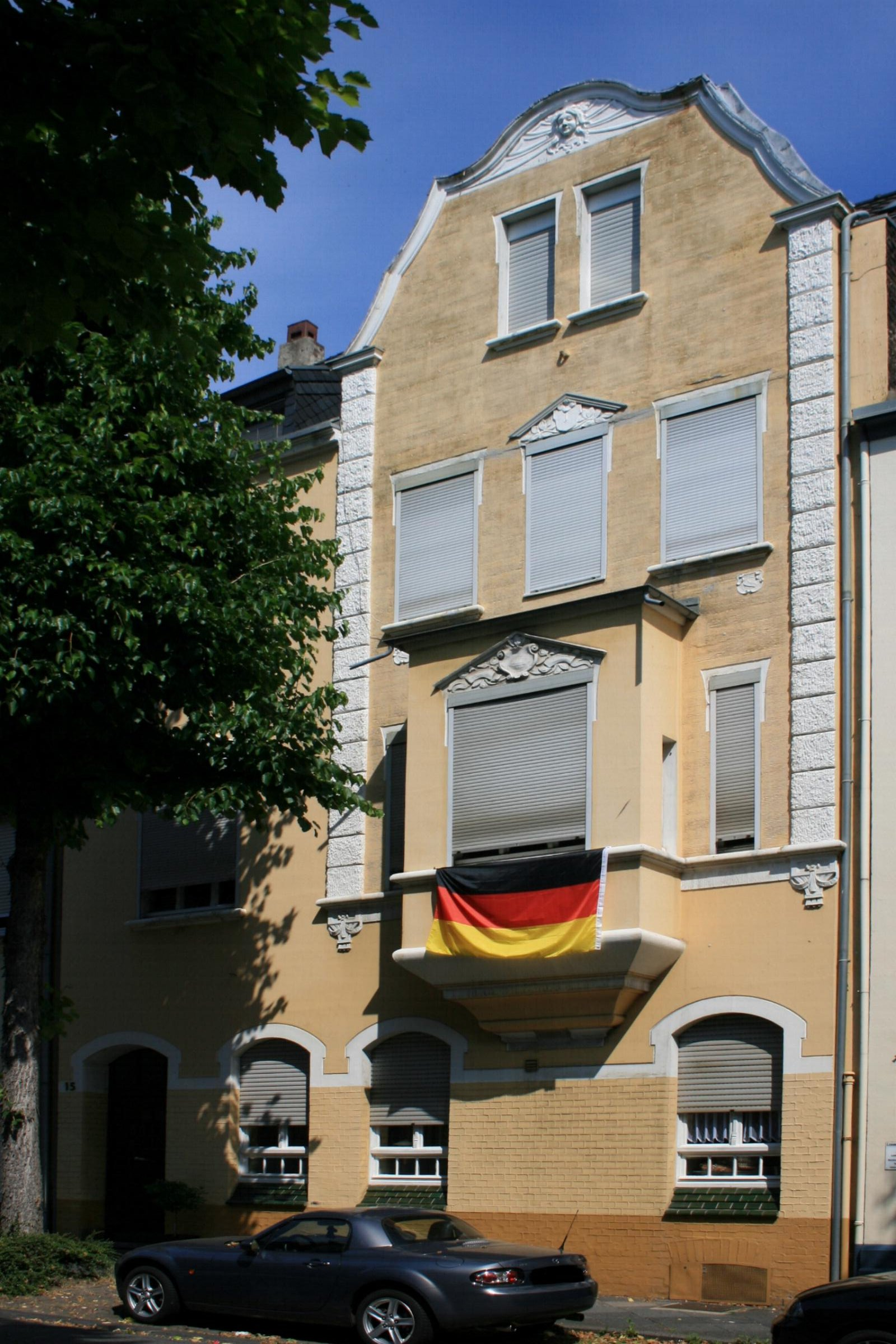 Cultural heritage monument No. B 128 in Mönchengladbach